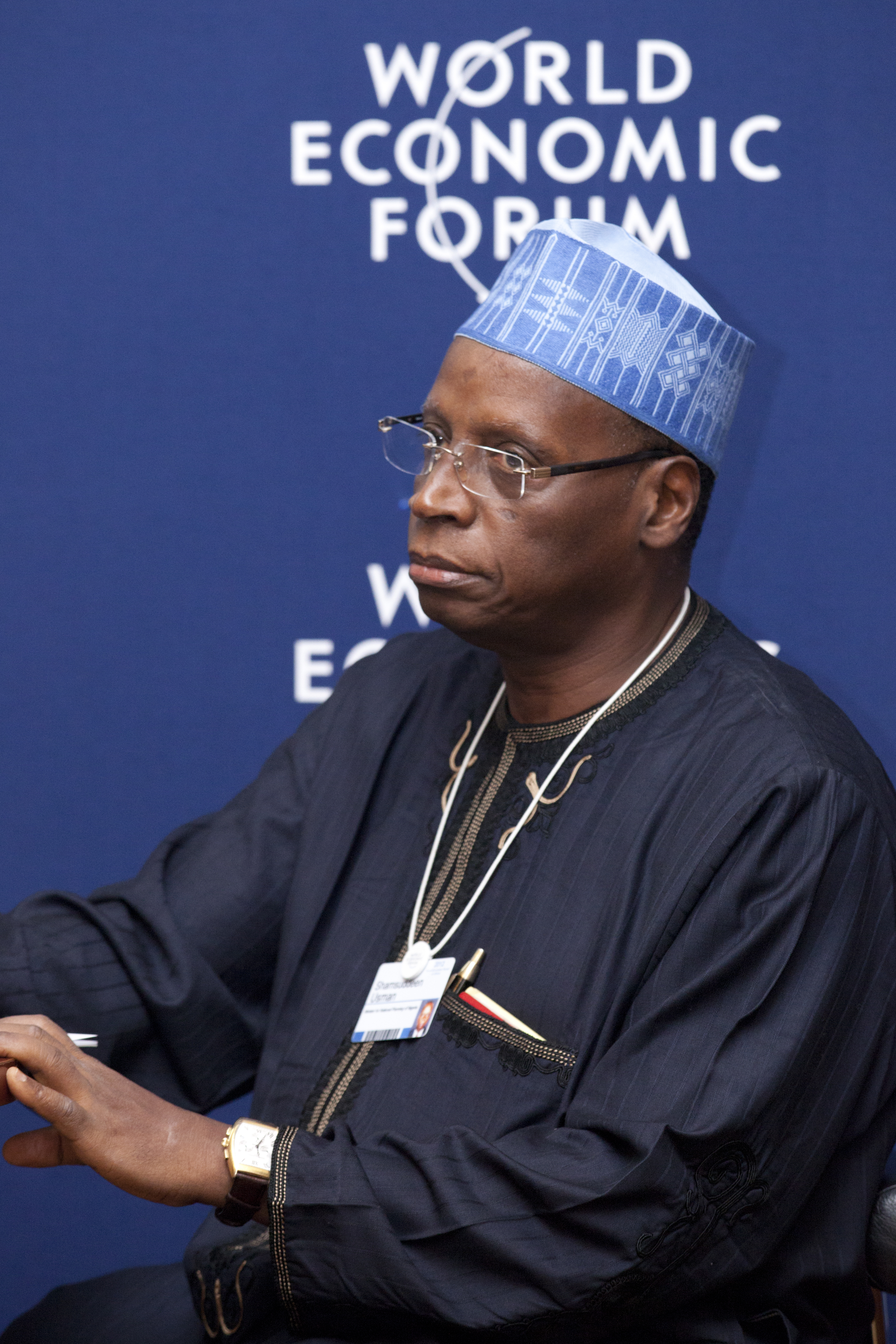 ADDIS ABABA/ETHIOPIA, 09-11 MAY 2012 - Shamsuddeen Usman, Minister for National Planning of Nigeria captured at African's Emerging Middle Class Session during the World Economic Forum on Africa held in Addis Ababa, Ethiopia, 9-11 May, 2012.